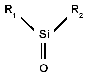 Silicone chemical structure, made by Magnus Manske with OpenOffice.